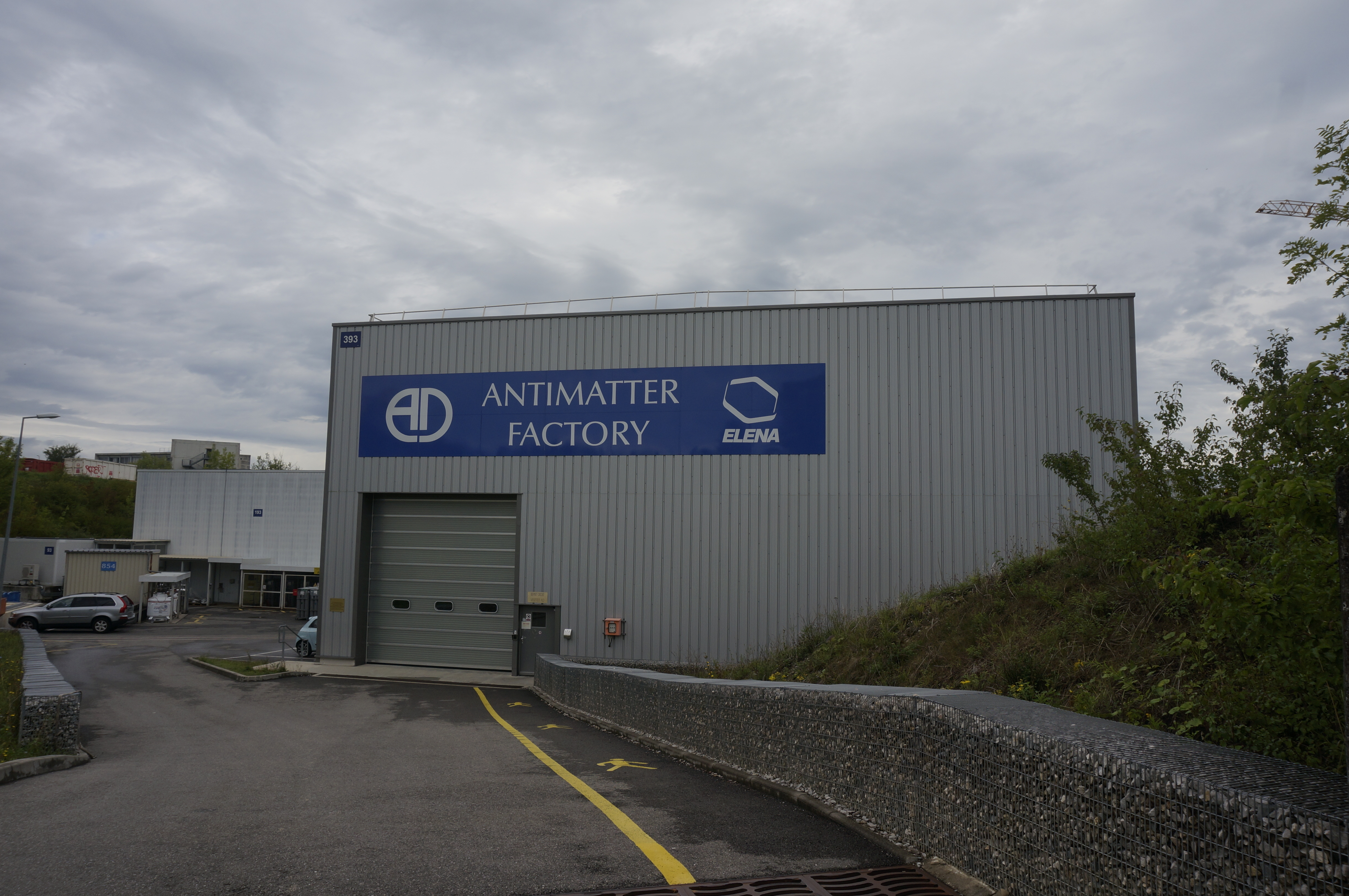 CERN building of the Antiproton Decelerator experiment